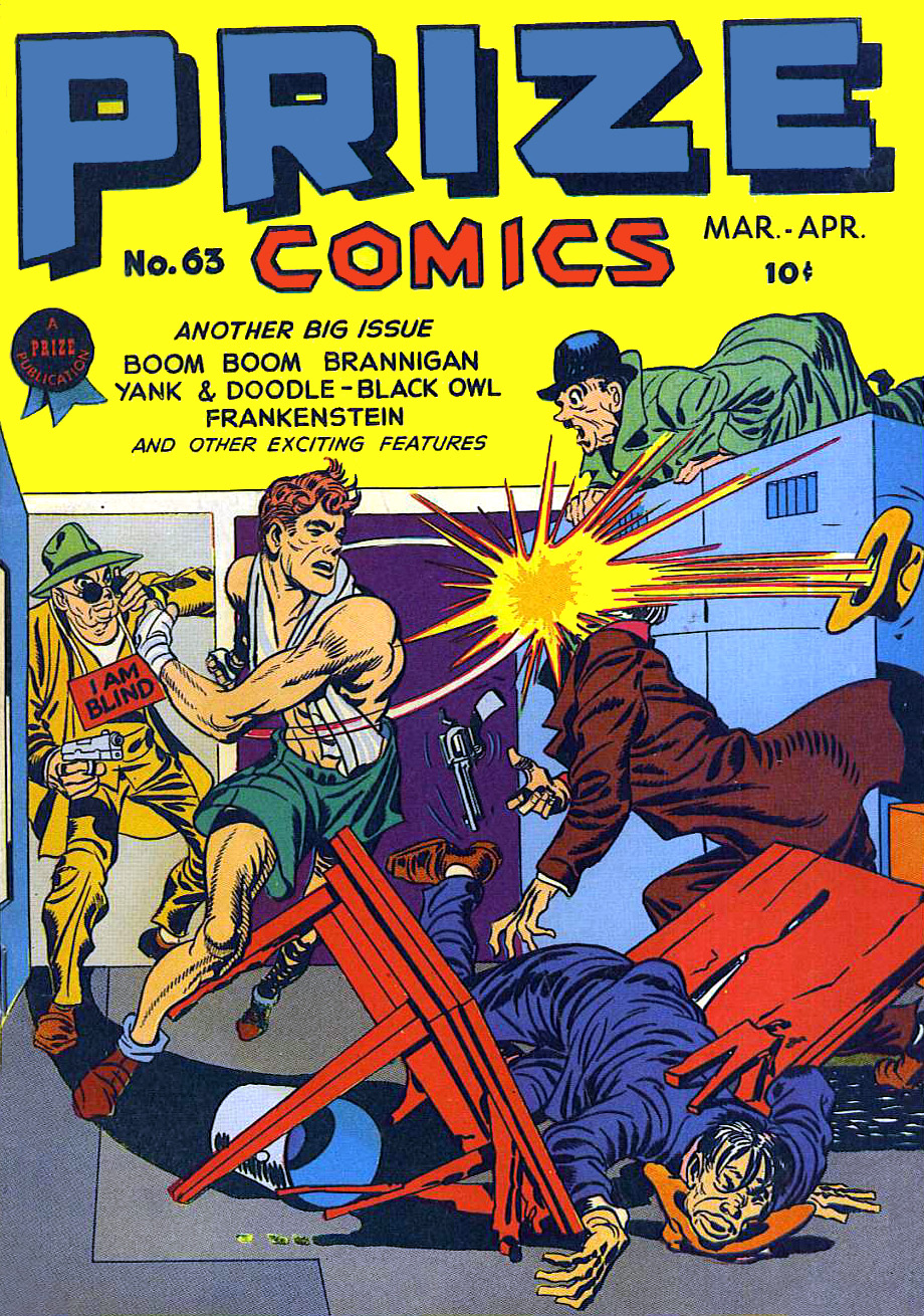 "Boom Boom" Brannigan scores another knockout on the cover of Prize Comics number 63 (March-April, 1947). Following the war, Simon and Kirby renewed their creative partnership at Prize, revitalizing a declining market with their unique brand of action and adventure.